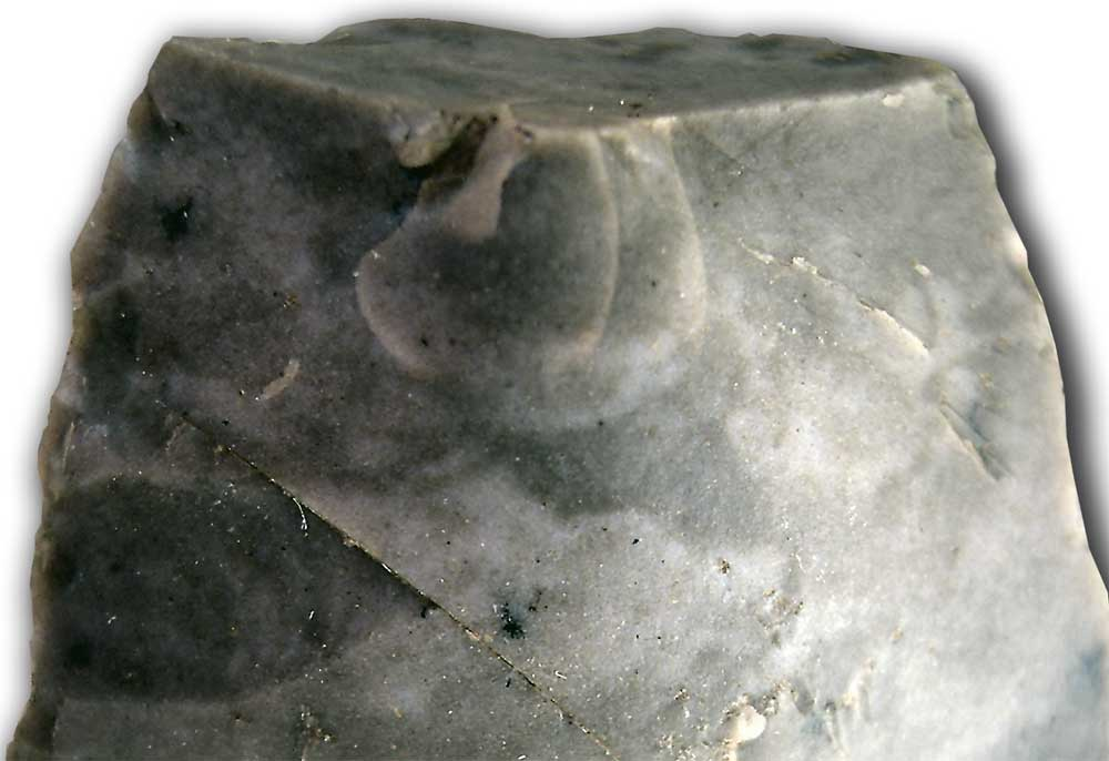 Flat butt and conchoide of a prehistoric flake in flint